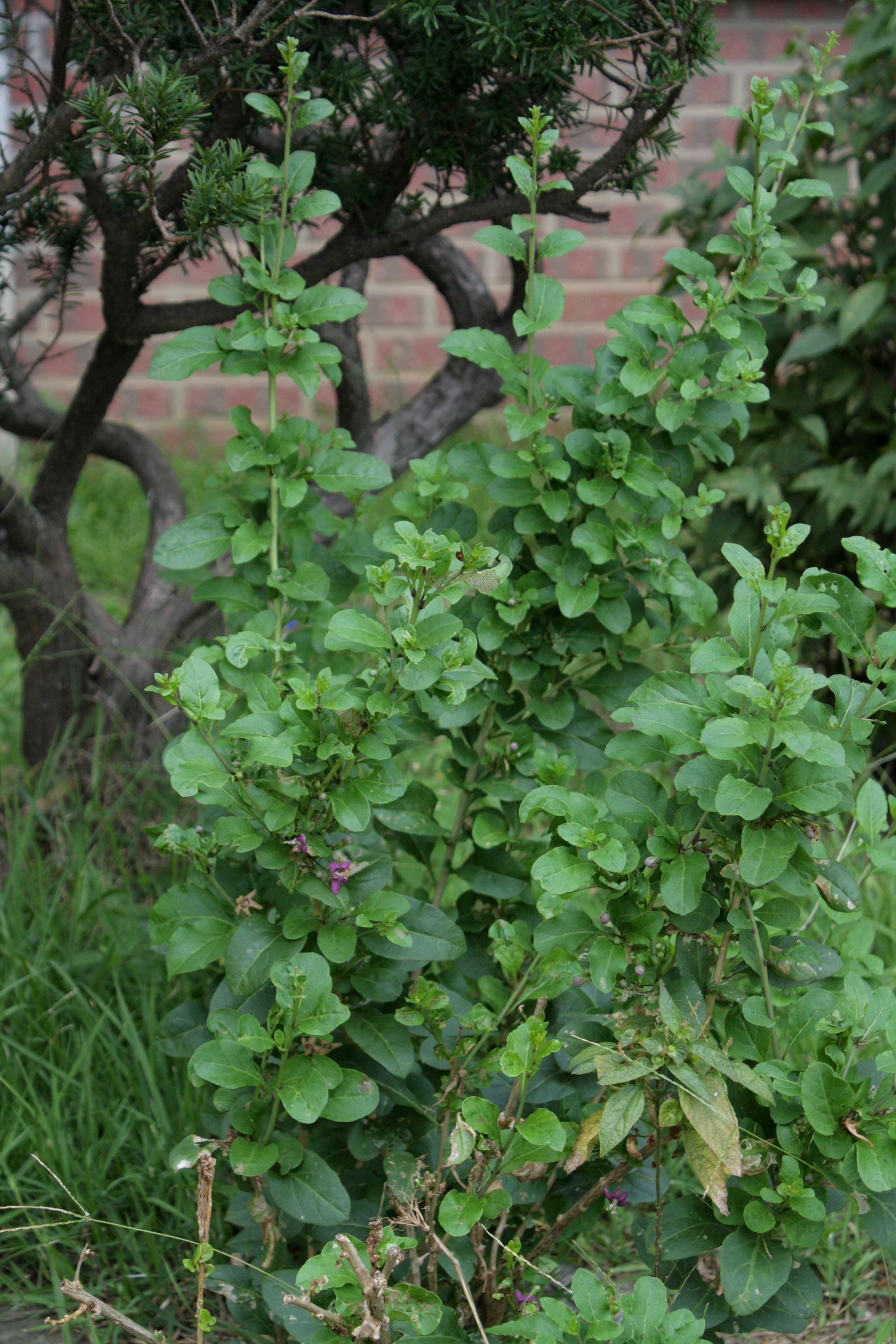 Lycium chinense